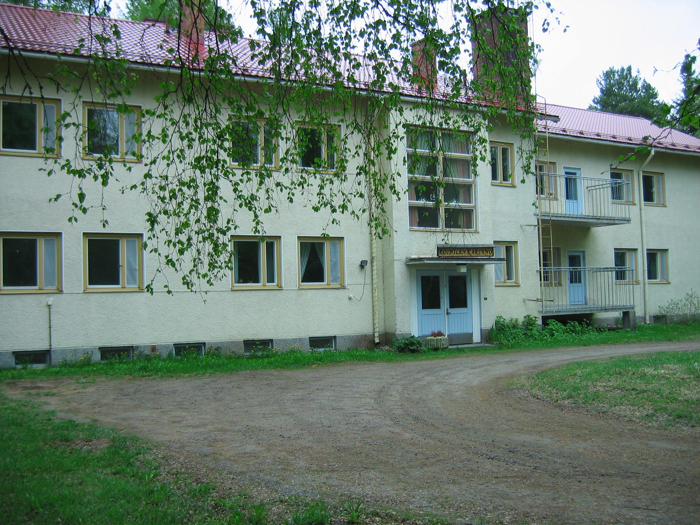 The former old people's home Roinila in Utajärvi, Finland